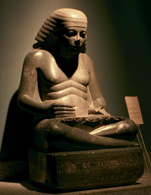 Amenhotep, Son of Hapu, Luxor Museum